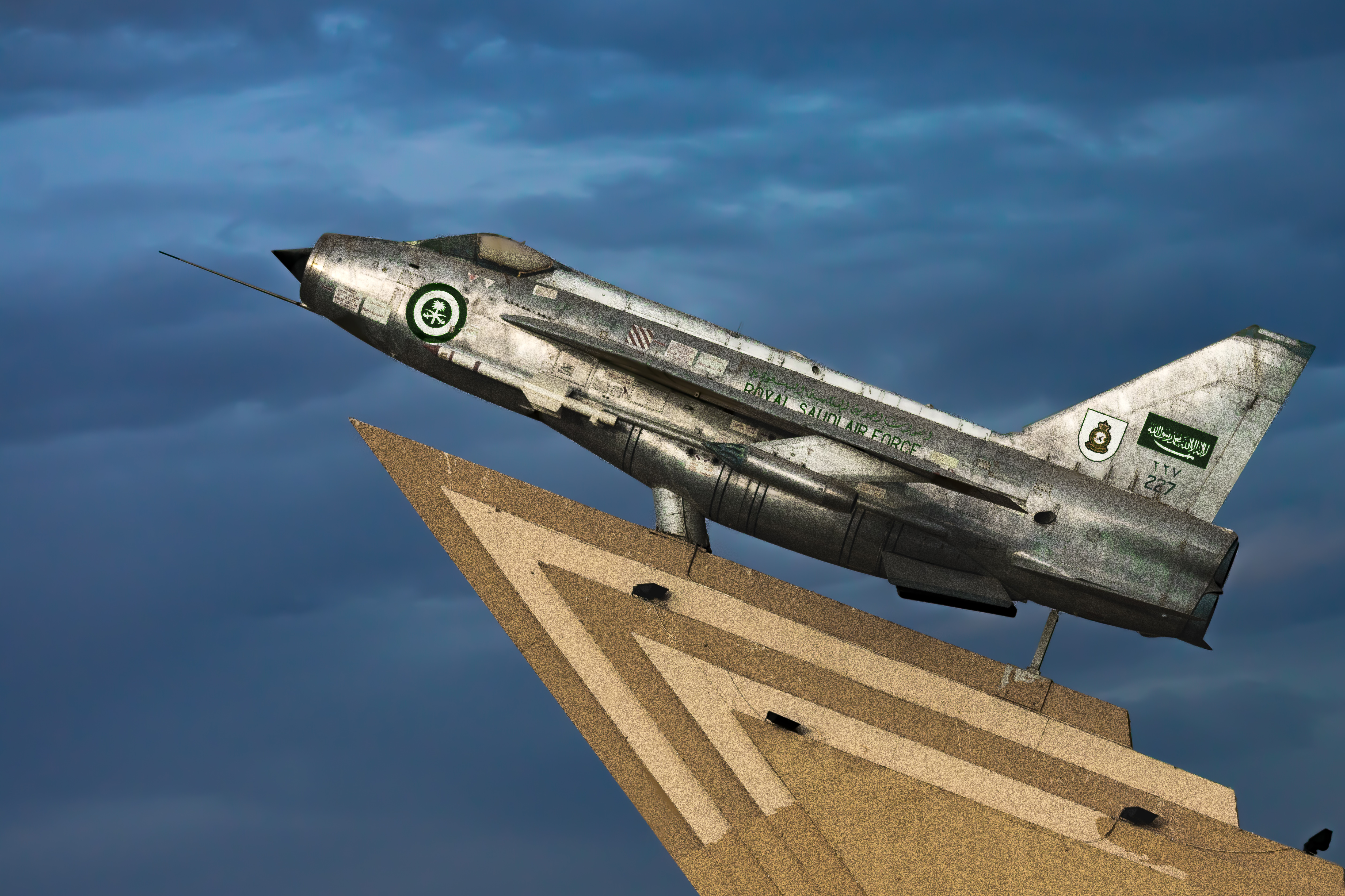 English Electric Lightning at the gates of the King Faisal Air Base